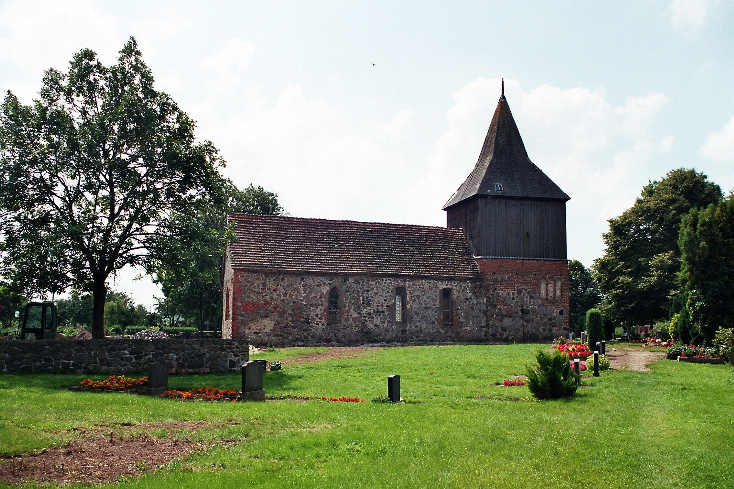 Zirzow, the village church